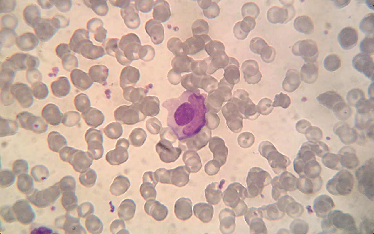 Microphotograph of a LE cell, May Grünwald Giemsa stain, 100x immersion objective + 3:1 digital ampliation